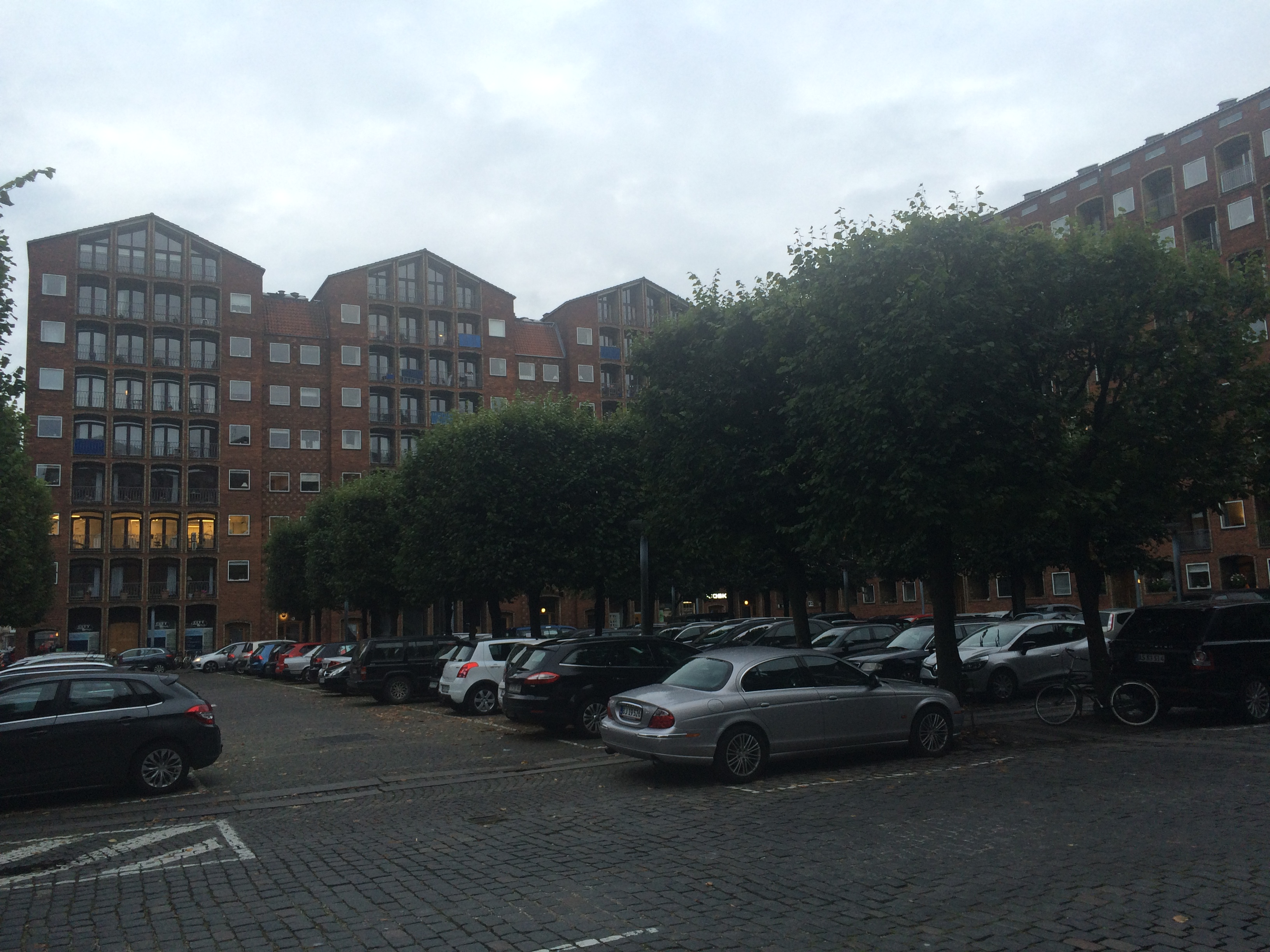 The housing complex Dronningegården in Copenhagen